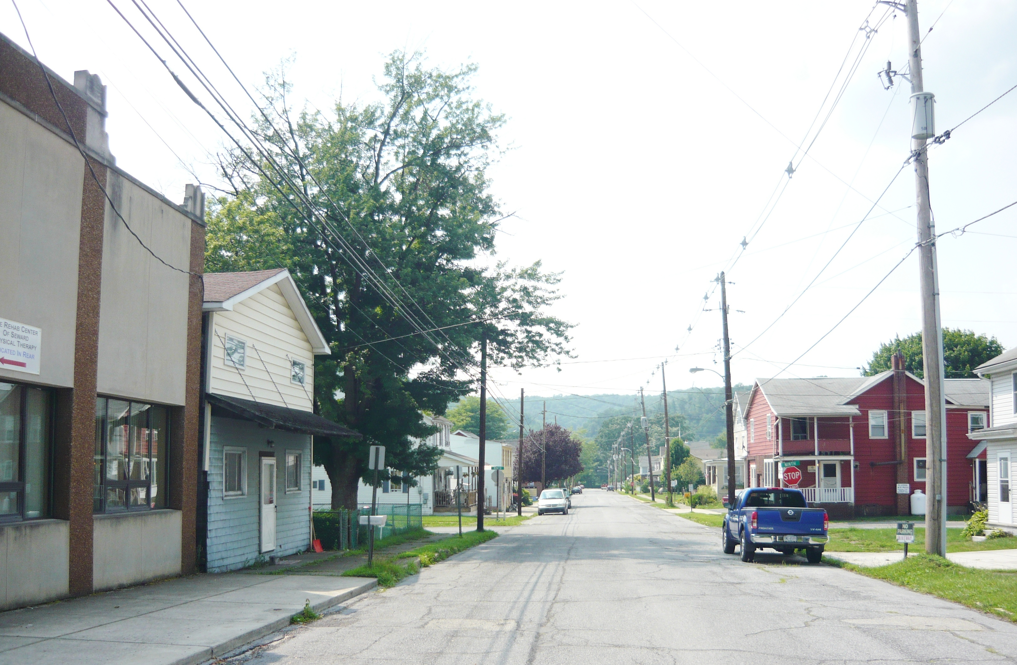 Indiana Street (looking westward from 10th Street), Borough of Seward, Westmoreland County, Pennsylvania.